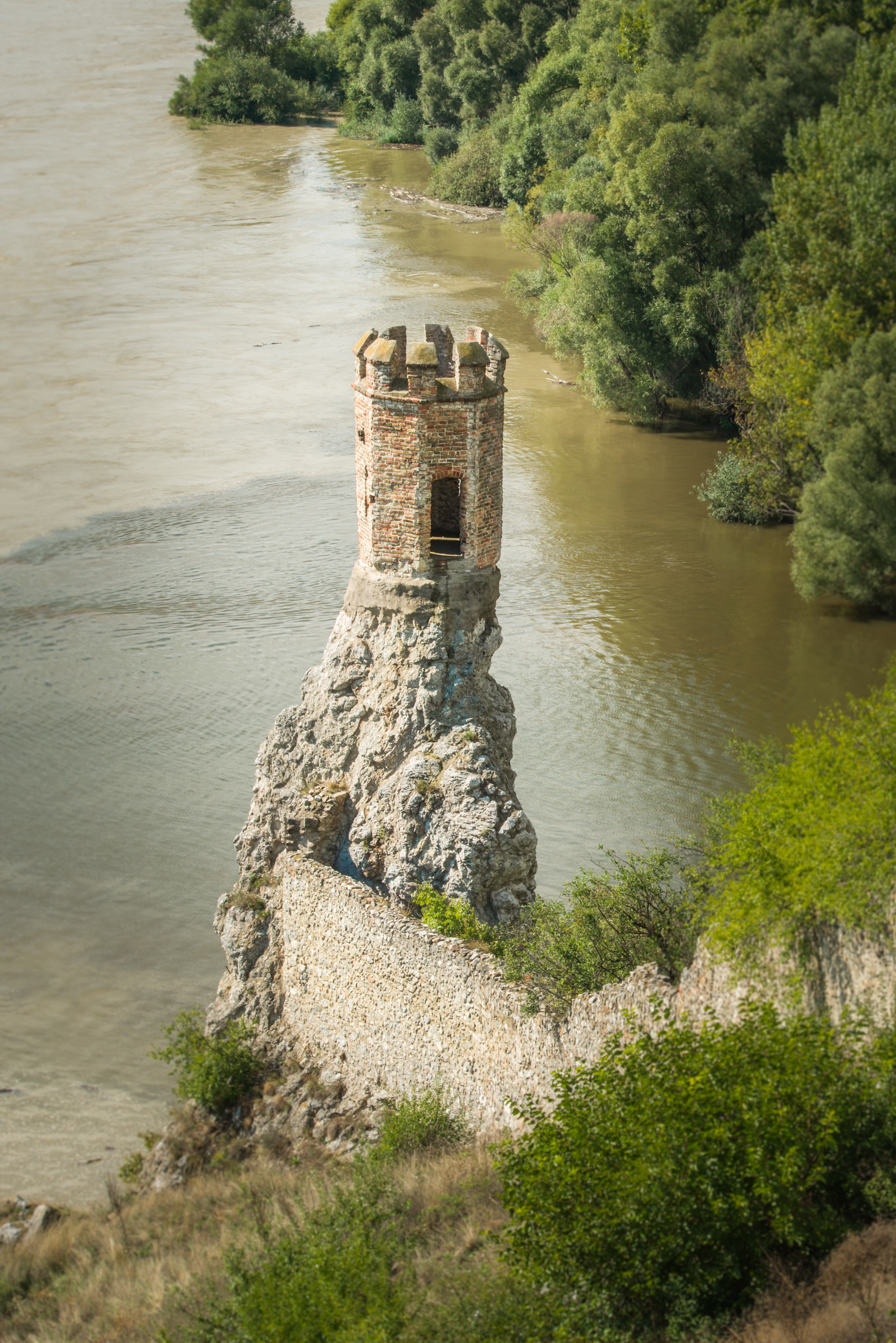 Devin Castle in Slovakia